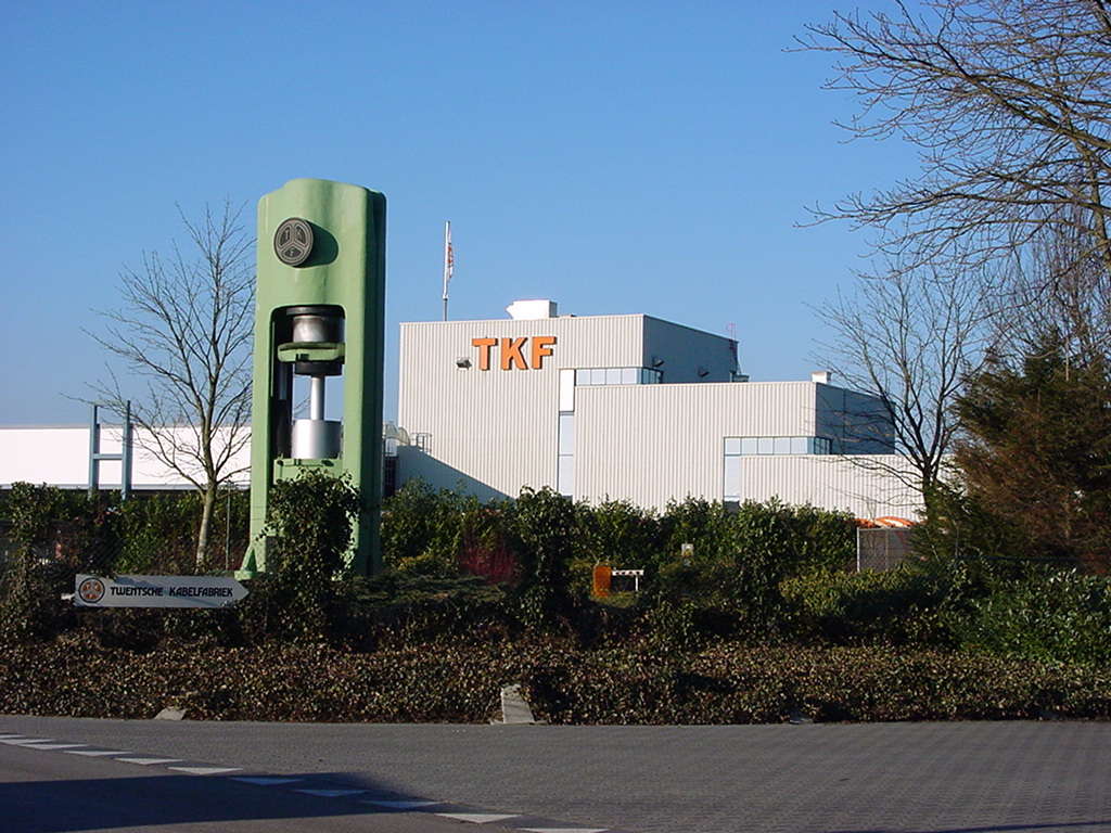 Haaksbergen: Cable factory 'Twentsche Kabelfabriek' with lead press